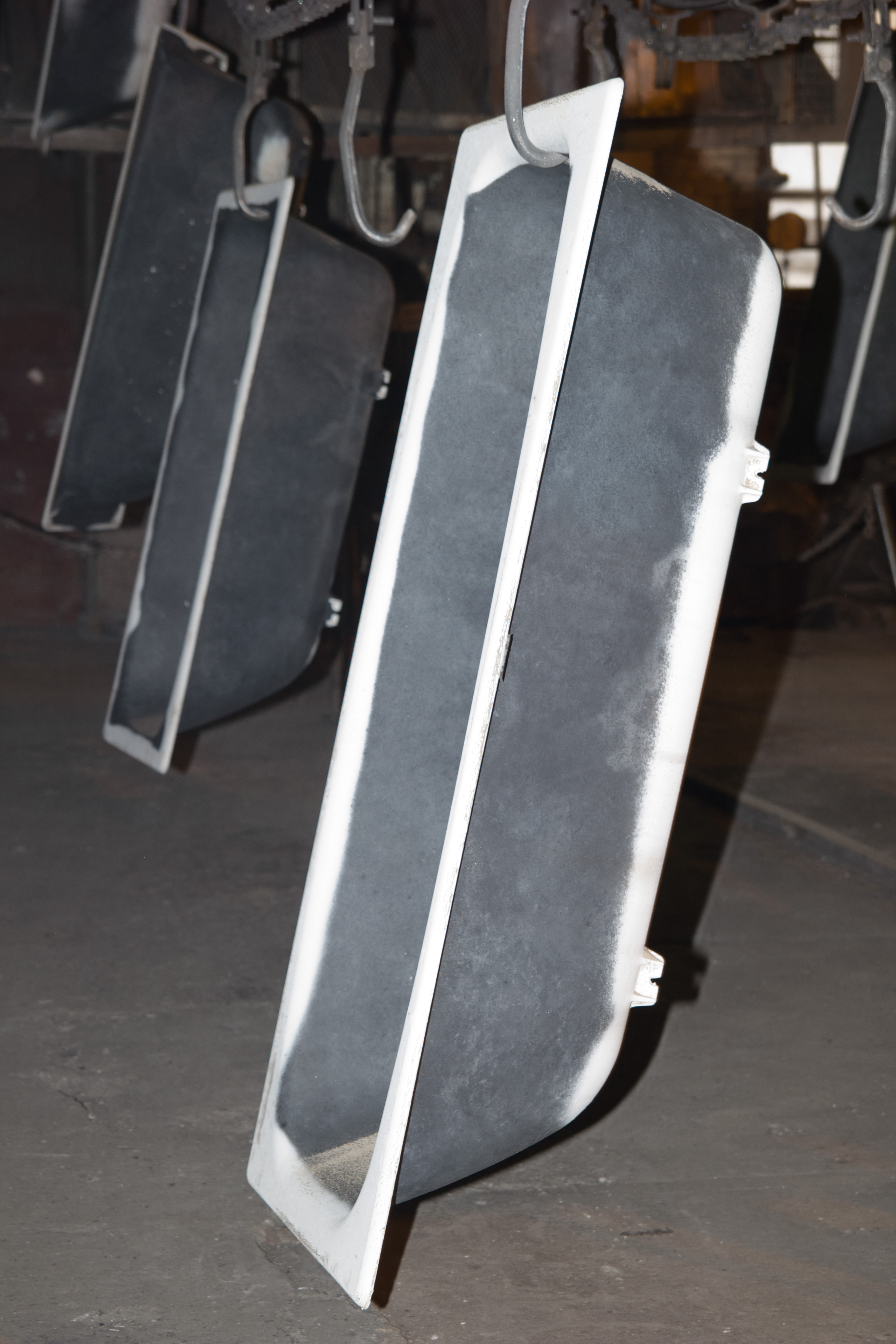 Чугунная отливка